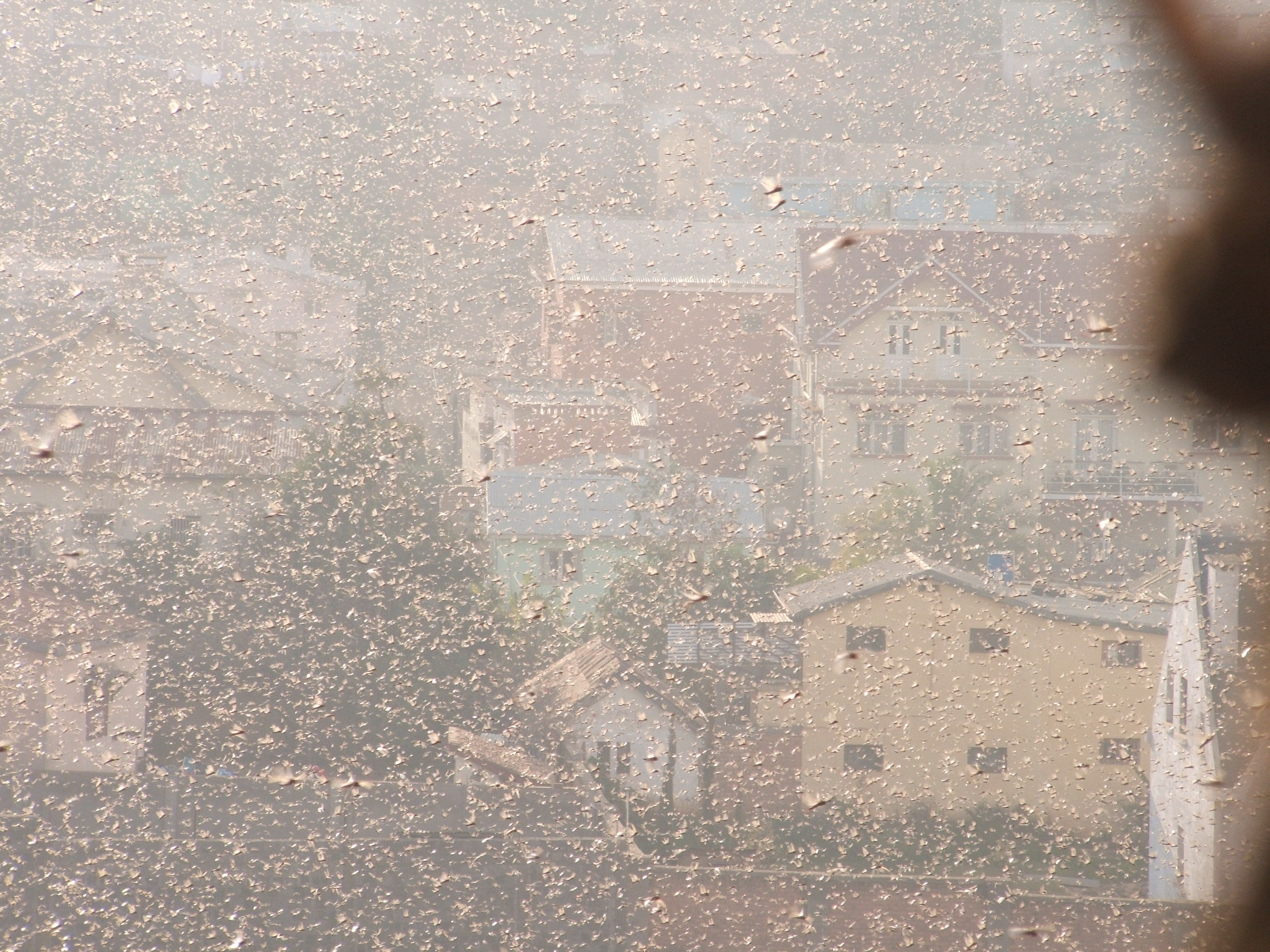 Malagasy: Valala tonga teto Tanà This is an image of Cultural Fashion or Adornment from Madagascar